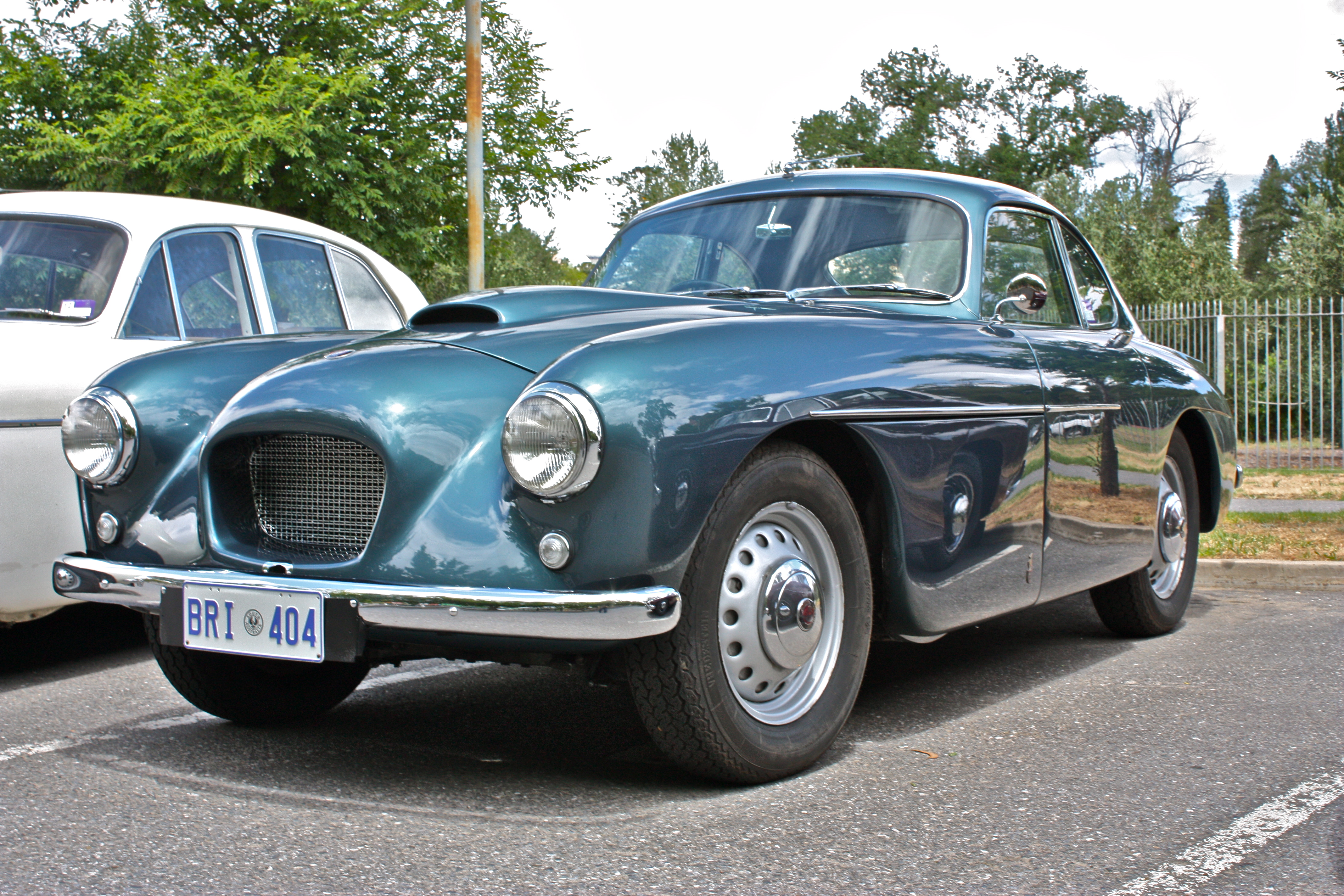 Bristol 404 two door saloon at the Adelaide Botanic Gardens.